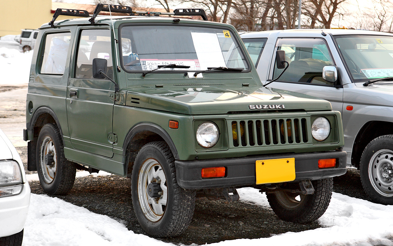 Suzuki Jimny 550 Van VC ( 1982 SJ30V-1 )